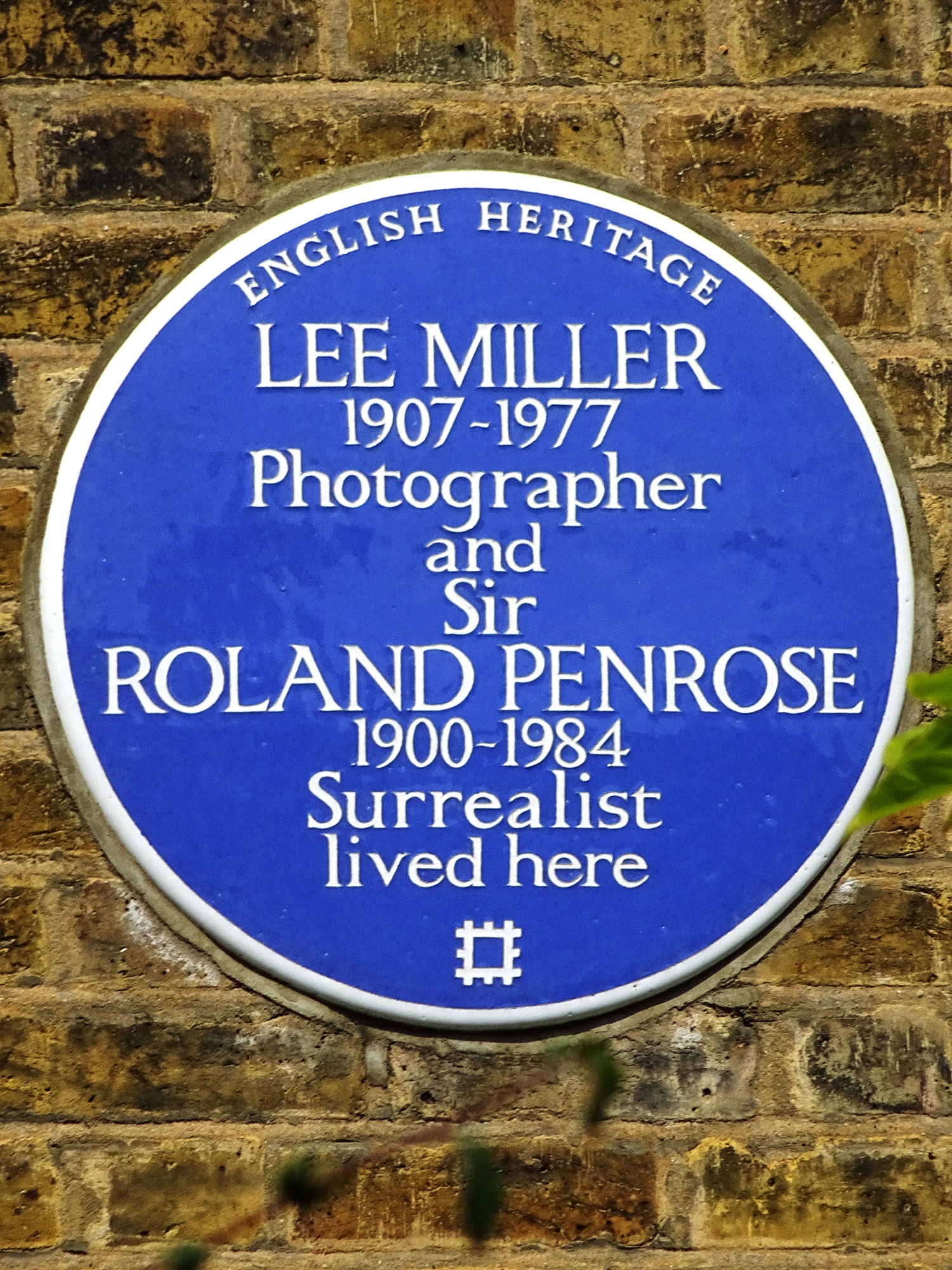 Blue plaque erected in 2003 by English Heritage at 21 Downshire Hill, Hampstead, London NW3 1NT, London Borough of Camden